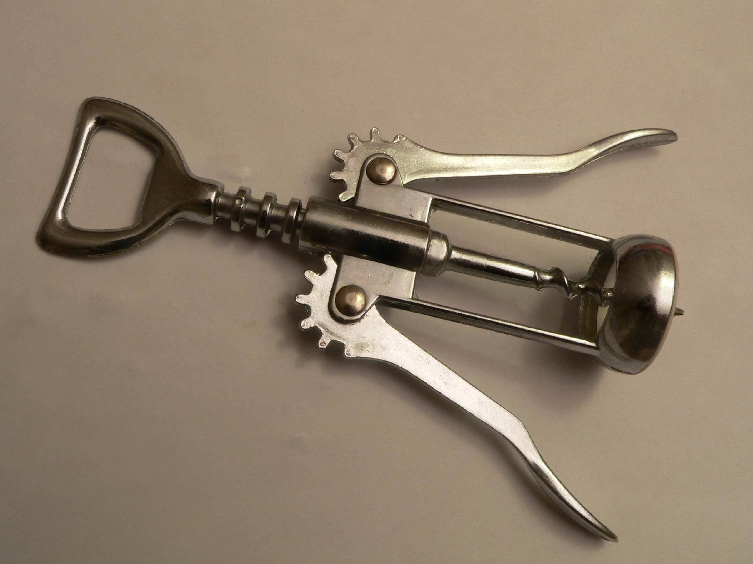 Corkscrew